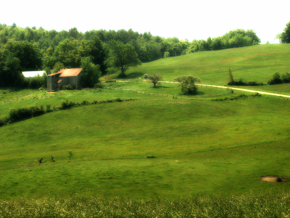 Photo taken of Jenne Farm taken in the summer.